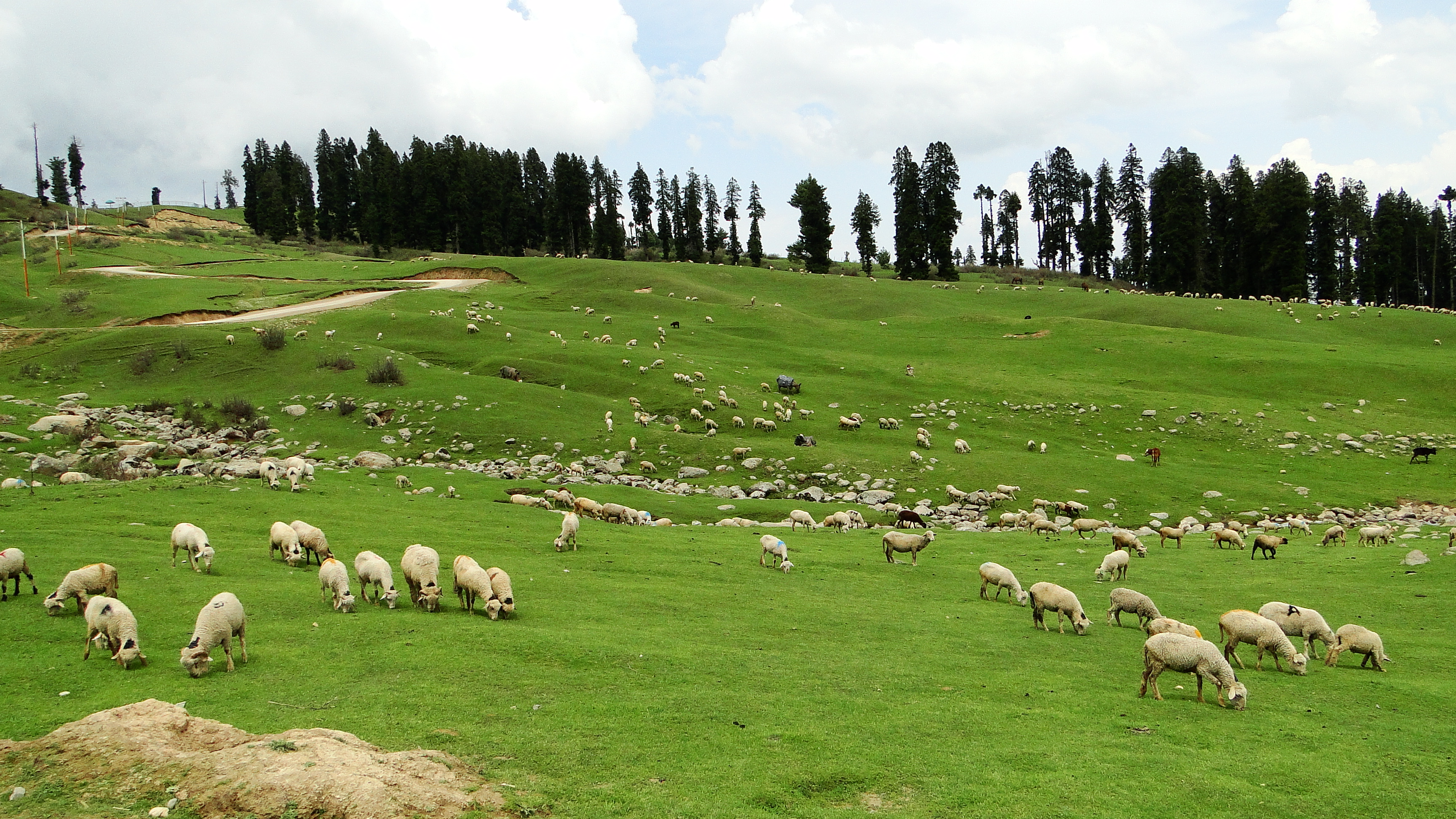 Doodhpathri. Nature, scenery in the Himalayas, southwest Jammu and Kashmir, India, May 2014